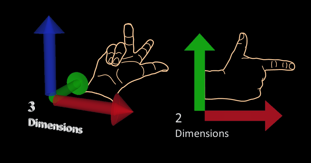 Coordinate systems for three and two dimensional spaces. The three dimensional system is according to the "right hand rule" with X int the direction of the thumb, Y in the direction of the index and Z in the direction of the long finger respectively.